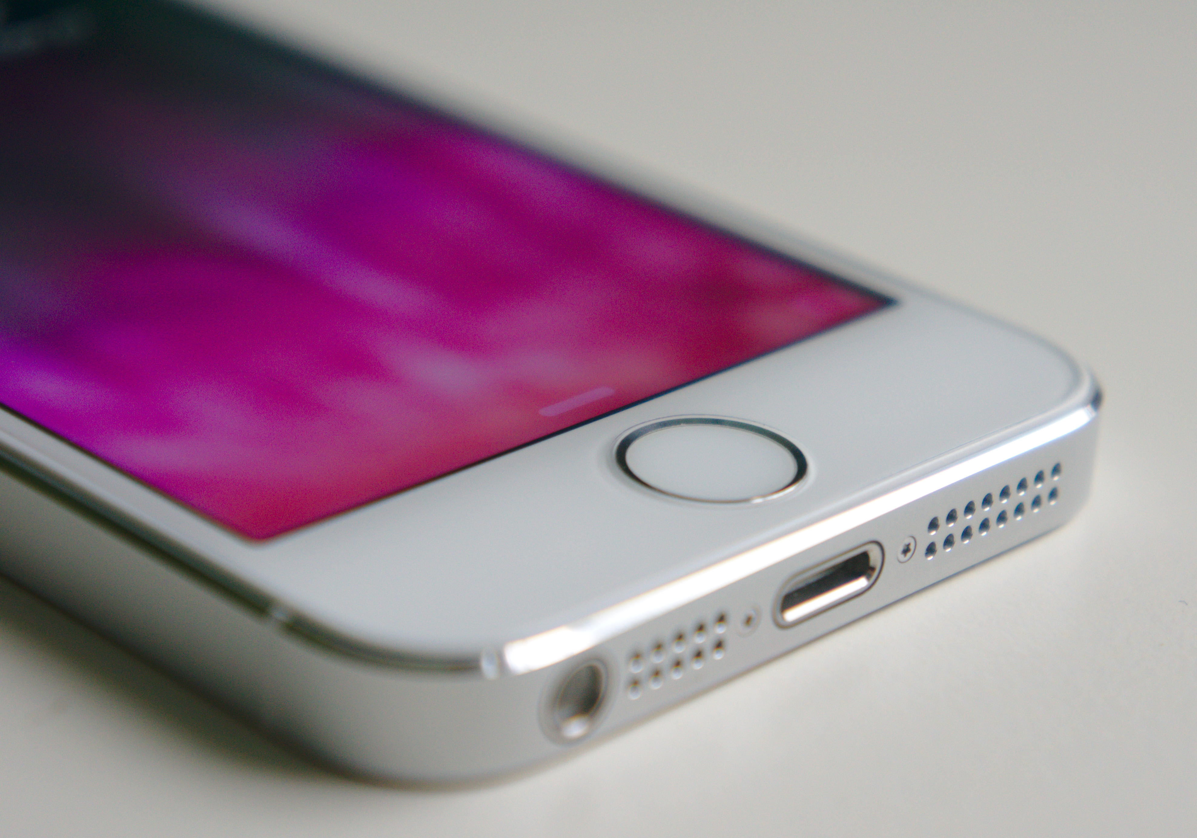 A closeup of the iPhone 5S touch ID sensor